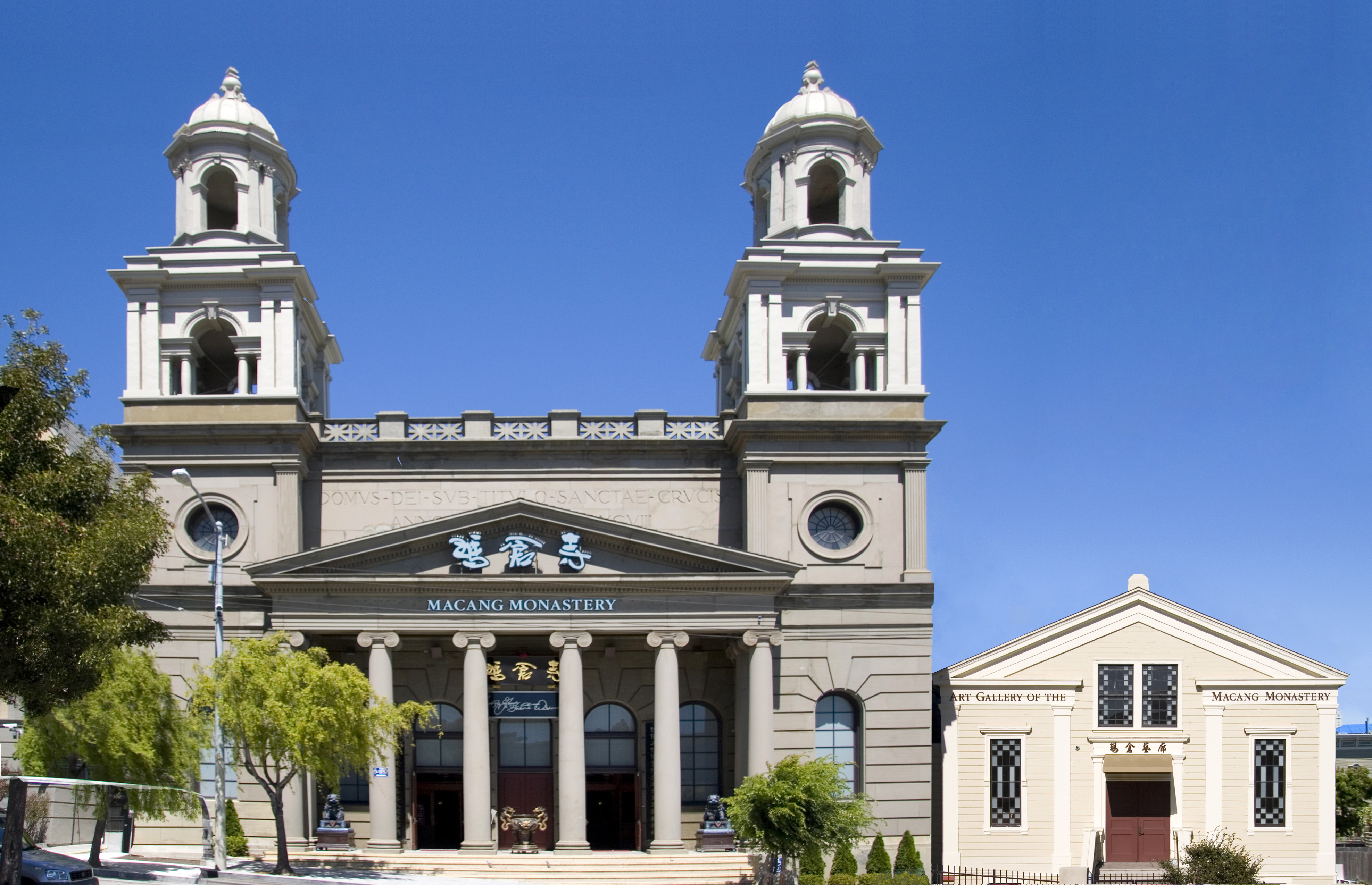 A front view of Macang Monastery, San Francisco